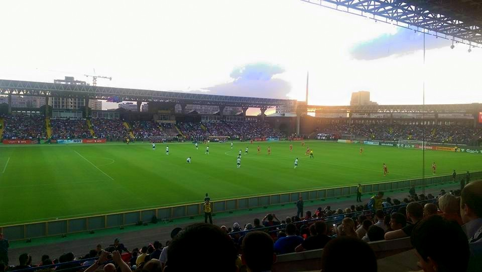 Armenia vs Portugal, 13 June 2015, V. Sargsyan Rep. Stad. Yerevan